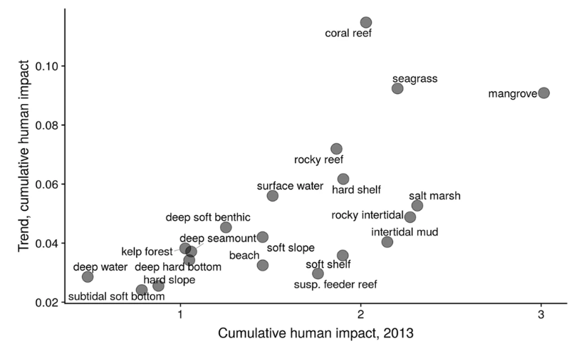 Cumulative human impacts on marine ecosystems 2013. Relationship between annual trend and current cumulative impacts for each ecosystem.